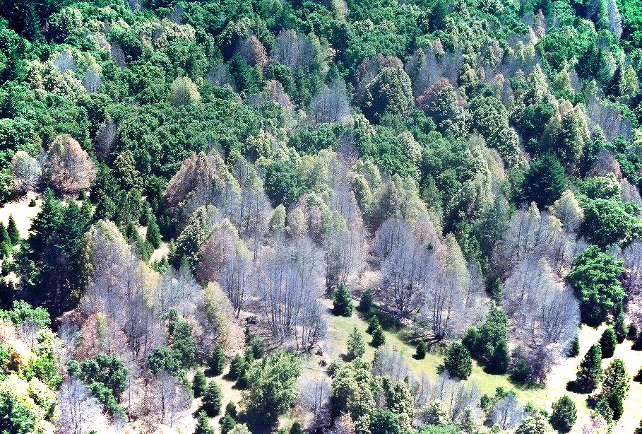 Phytophthora ramorum-caused mortality in tan oak, Sonoma County, CA